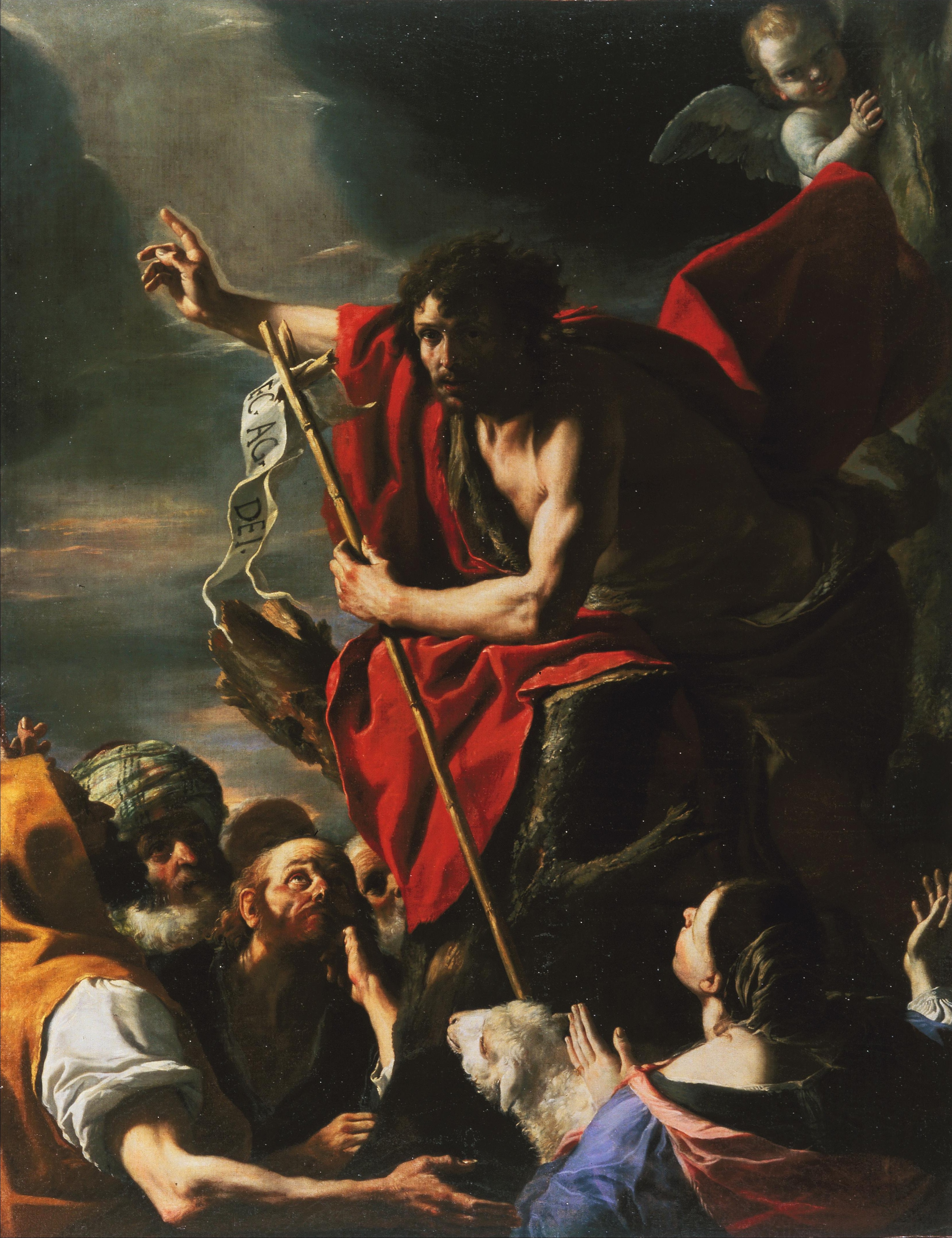 A dramatic image of St. John the Baptist preaching in the wilderness.